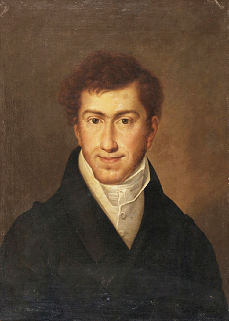 Francisco de Paula of Bourbon, infante of Spain (1794-1865) and son of the king Charles IV of Spain.